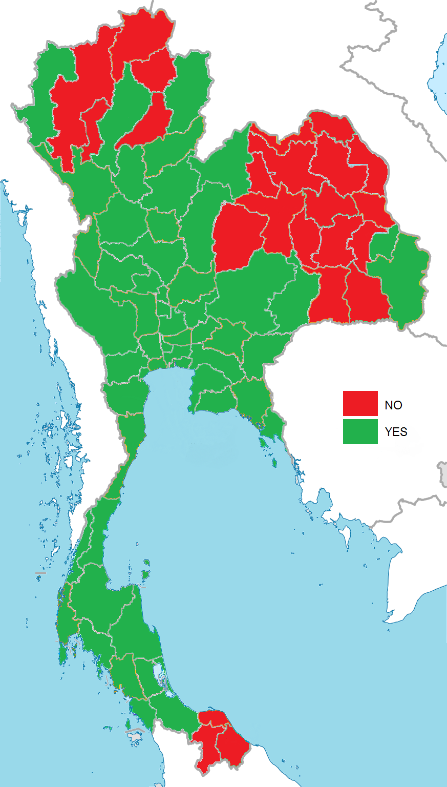 Thai constitutional referendum result by provinces